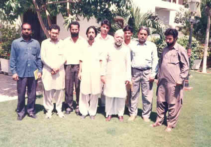 Maulana Waris Hassan (with cap)